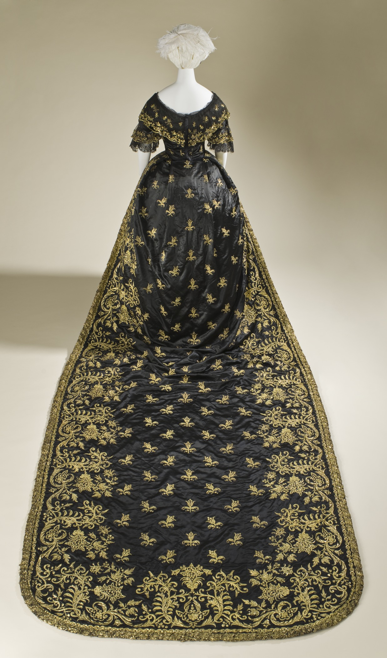 Portugal, circa 1845 Costumes; principal attire (entire body) a) Silk satin with metallic-thread embroidery and silk net (tulle) trim; b-c) Silk satin with metallic-thread embroidery a) Bodice center back length: 10 1/8 in. (25.72 cm); b) Petticoat center back length: 44 in. (111.76 cm); c) Train: 120 x 54 in. (304.8 x 137.16 cm); d) Fancy dress bodice center back length: 14 1/2 in. (36.83 cm); e) Standing Whisk (Medici) Collar: 15 x 17 in. (38.1 x 43.18 cm) Purchased with funds provided by Suzanne A. Saperstein and Michael and Ellen Michelson, with additional funding from the Costume Council, the Edgerton Foundation, Gail and Gerald Oppenheimer, Maureen H. Shapiro, Grace Tsao, and Lenore and Richard Wayne (M.2007.211.941a-e) Costume and Textiles